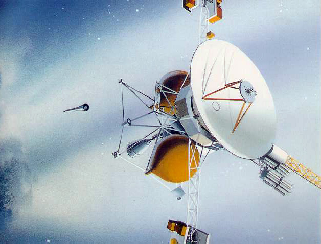 CRAF spacecraft NASA image